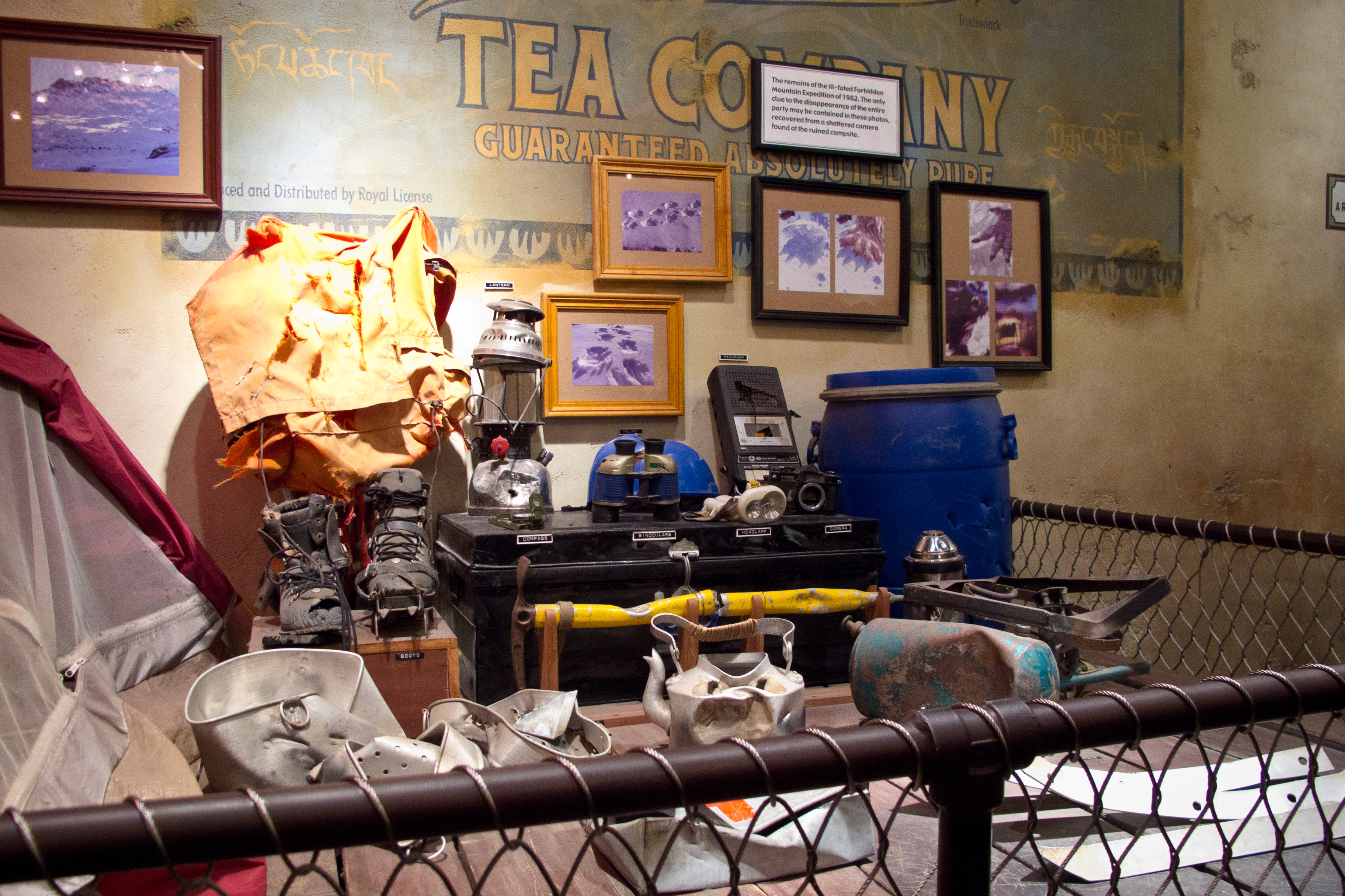 A look at the waiting area for Expedition Everest in the Animal Kingdom.